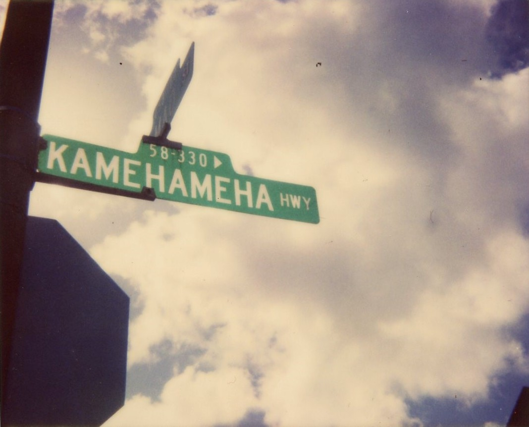 Kamehameha Highway street sign in Hawaii